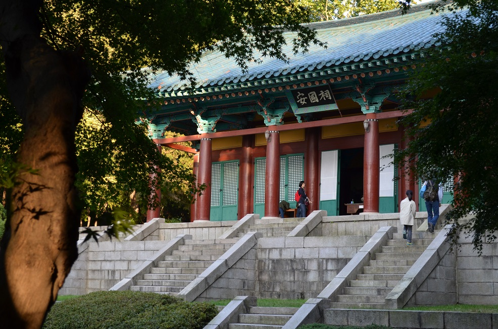 Anguksa shrine in Nakseongdae Park, Seoul, South Korea. The shrine is commemorative of general Gang Gam-chan (948-1031).